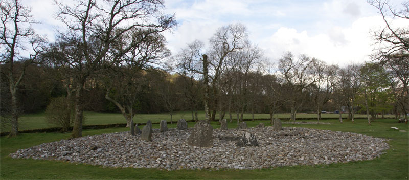 Temple Wood Stone Circles - southern circle